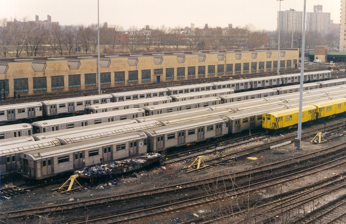 Looking north from near Bedford Park Blvd and Jerome Ave at Concourse Yard in the northern Bronx.